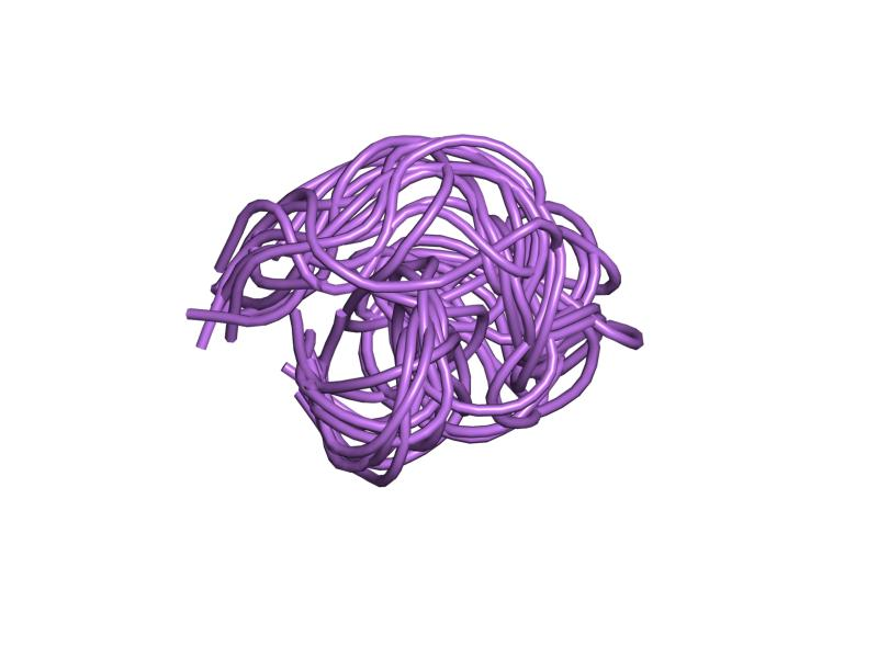 Cartoon representation of the molecular structure of protein registered with 1n2y code.